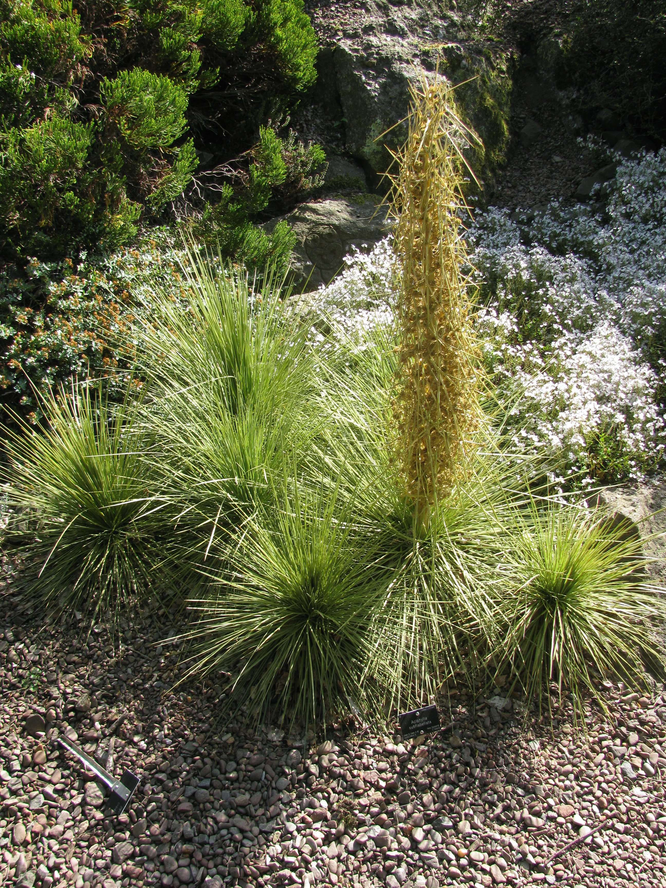 Spaniard Royal Botanic Garden Edinburgh: Accession number 2005.0858 B